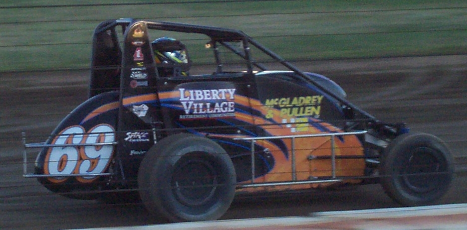 Former NASCAR driver Aaron Fike's 2008 Midget car racing at Dodge County, Wisconsin fairgrounds near Beaver Dam, Wisconsin at a United States Automobile Club event co-sanctioned with the Badger Midget Auto Racing Association.